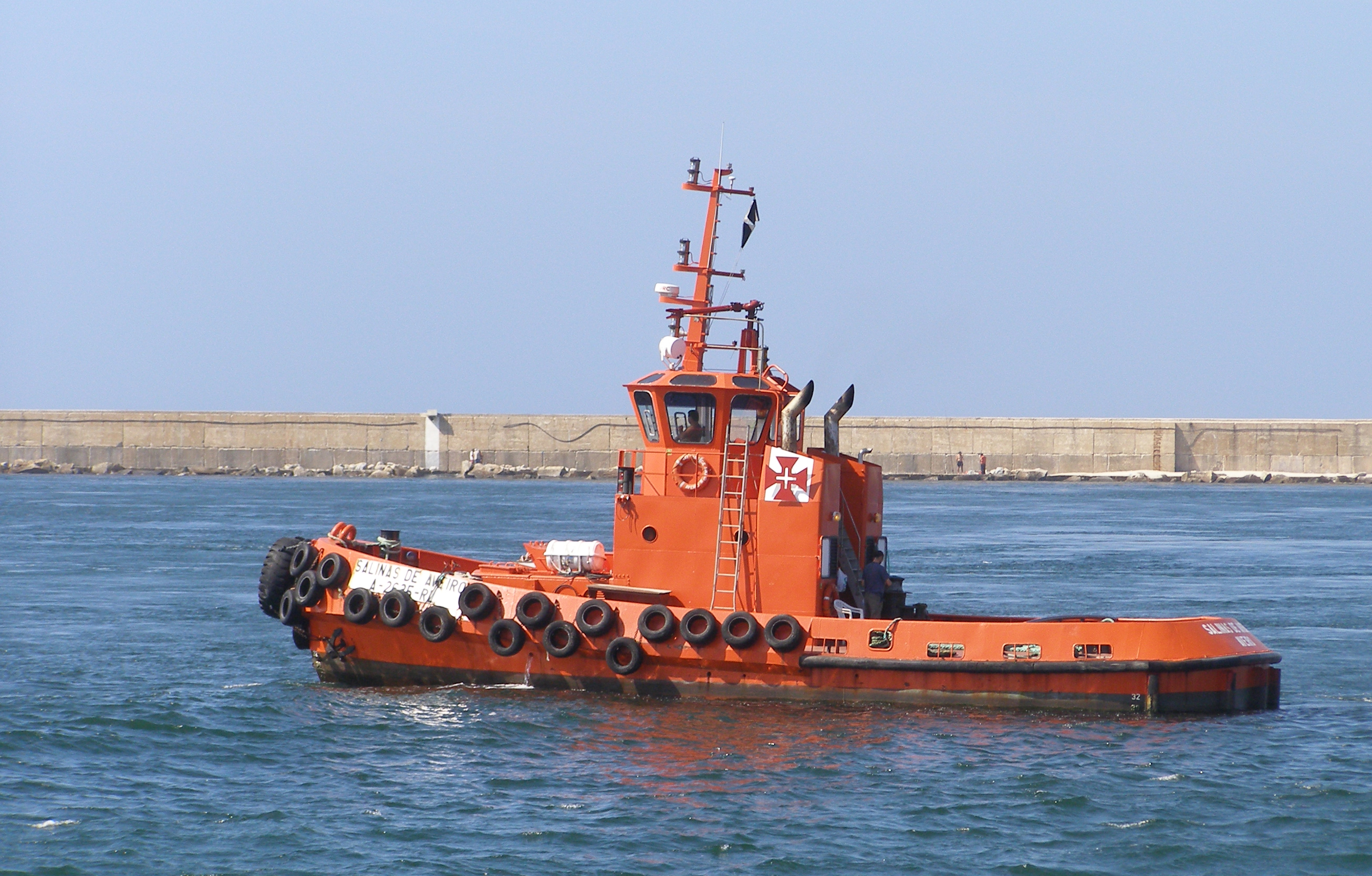 a tugboat; IMO number : 9184275 GRT: 132 Built: 1998 Name of ship : SALINAS DE AVEIRO Callsign : TC9111